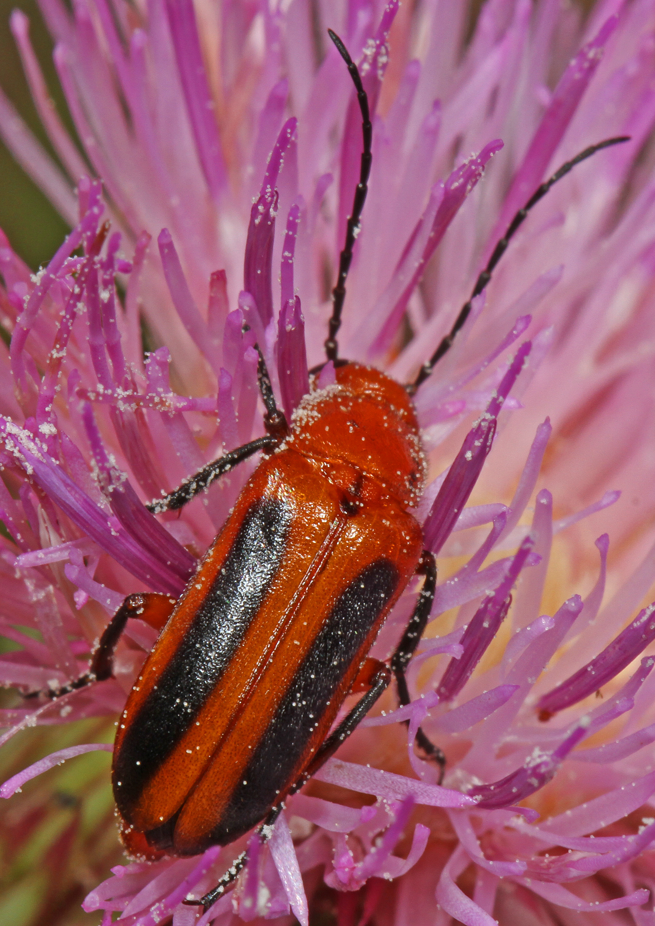 Blister Beetle - Nemognatha piazata, Okaloacoochee Slough State Forest, Felda, Florida.